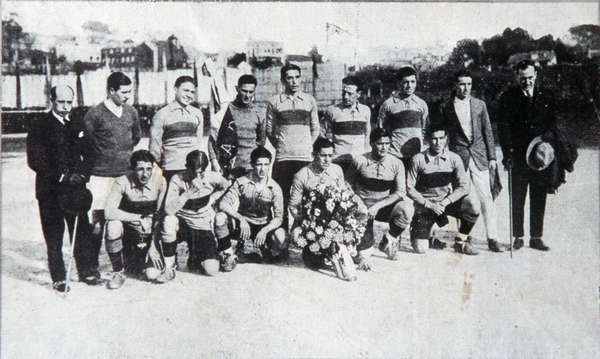 The Boca Juniors team that made its debut on the European Tour. That day the "Xeneixe" played Celta de Vigo, having won 3-1.